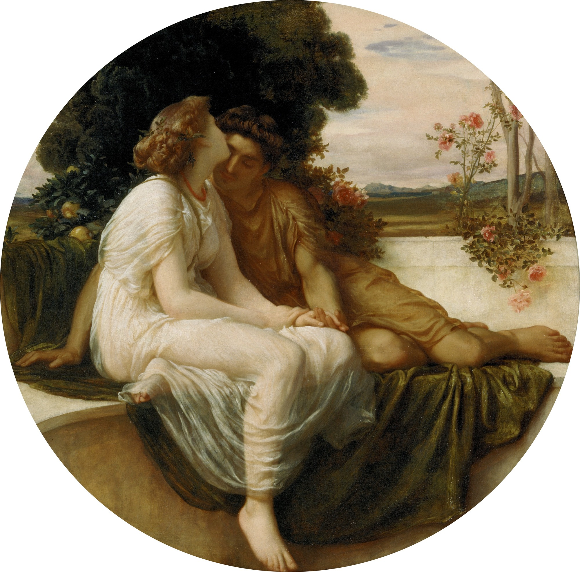 ‚Acme and Septimius‘ is a poem by Gaius Valerius Catullus (c. 84–c. 54 B.C.)[1]